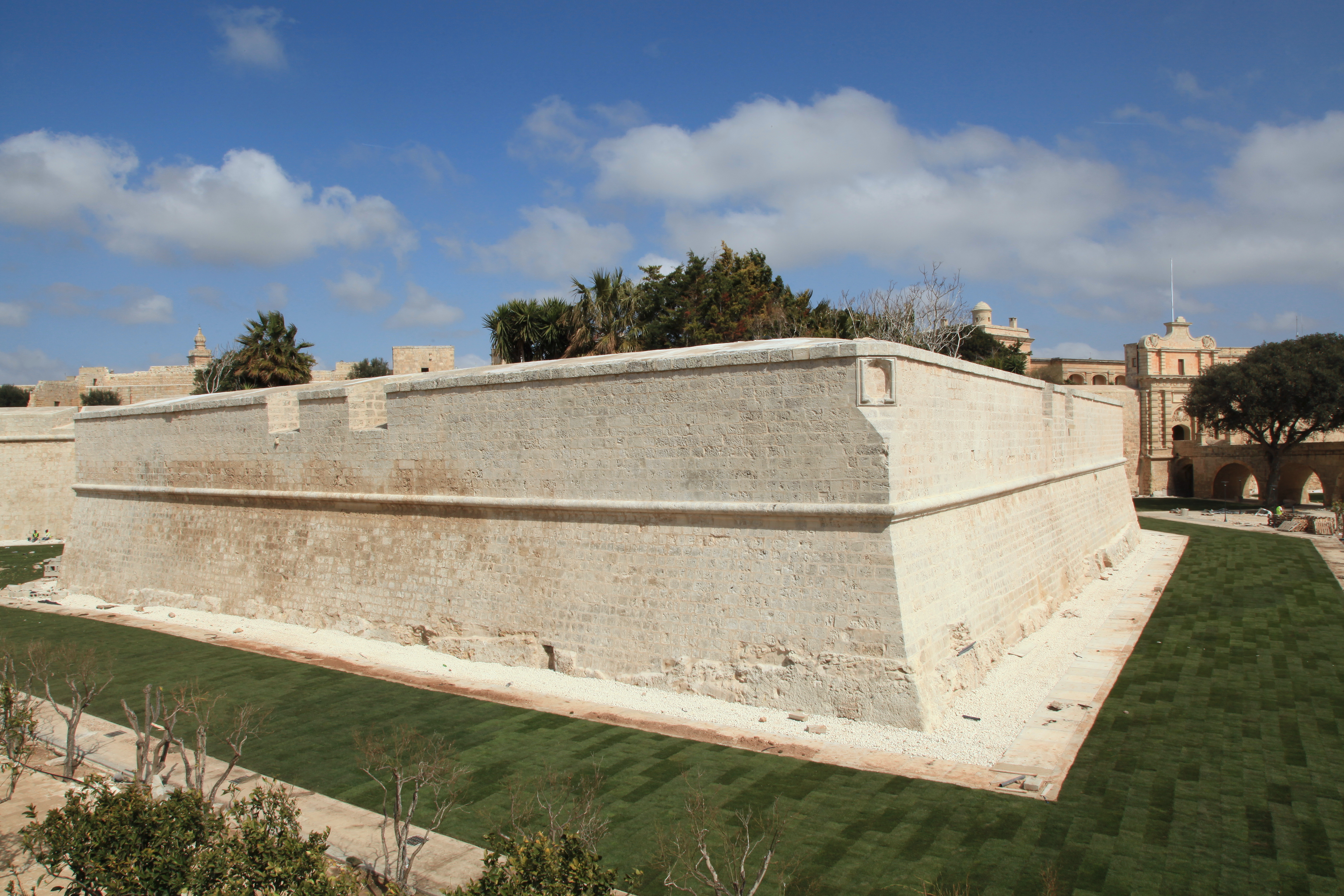 City wall and Lorenzo Calleja ditch in Mdina, Malta